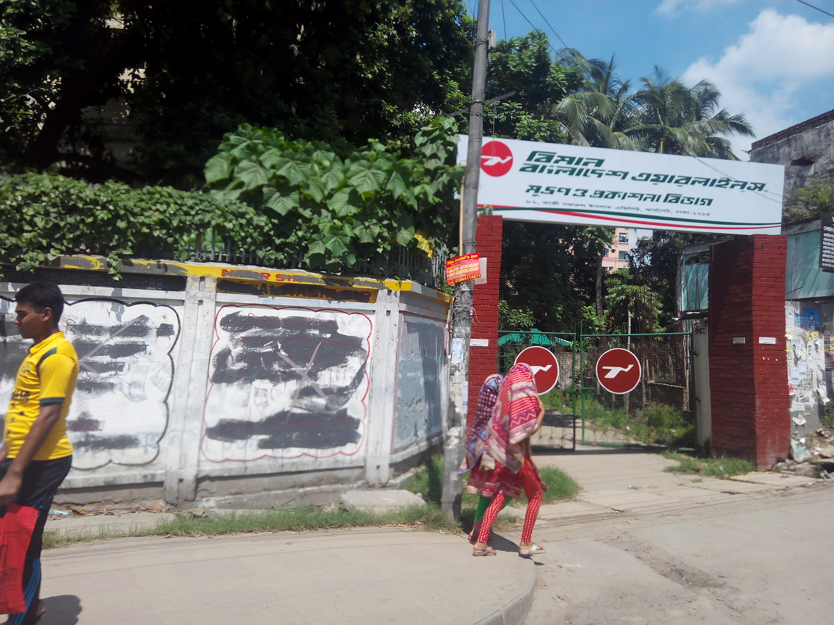 Bangladesh Life (50)